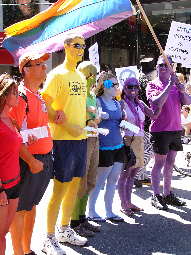 Vancouver_Gay_Pride